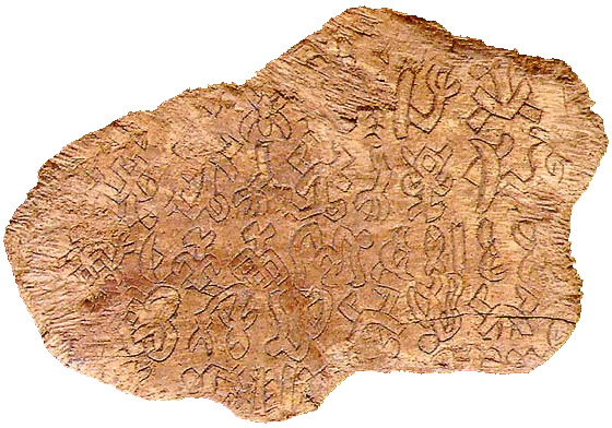 Side a of rongorongo Tablet F, the Stephen-Chauvet fragment.